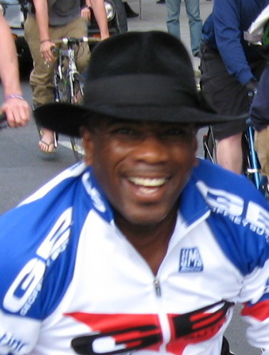 London mayoral candidate Winston McKenzie Esq. Taken at Critical Mass London 2007.